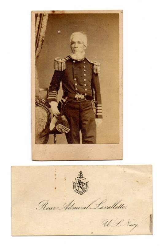 Rear Admiral (then Captain) Elie LaVallette in uniform, with Navy calling card